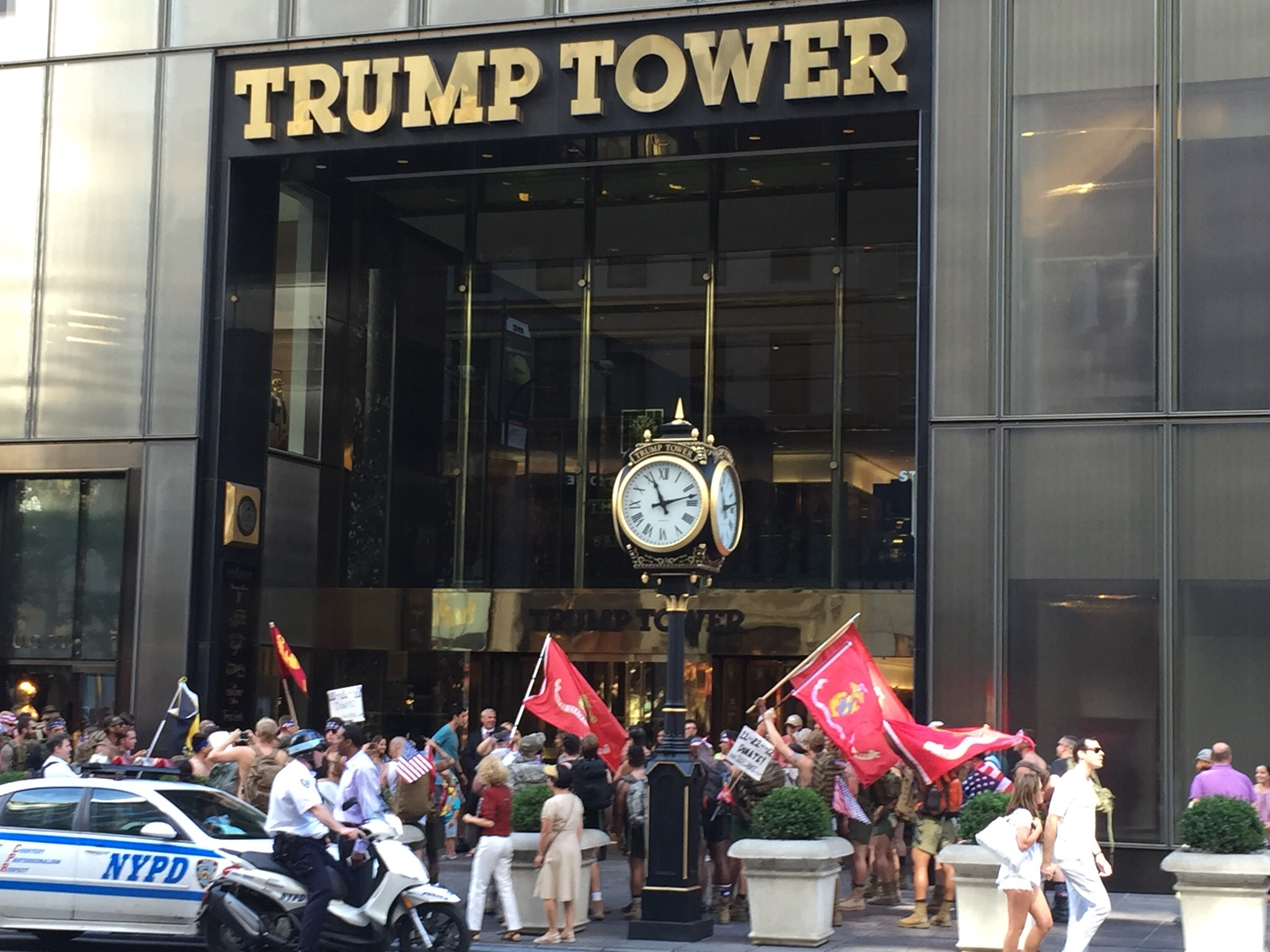 The entrance of the Trump Tower in NYC